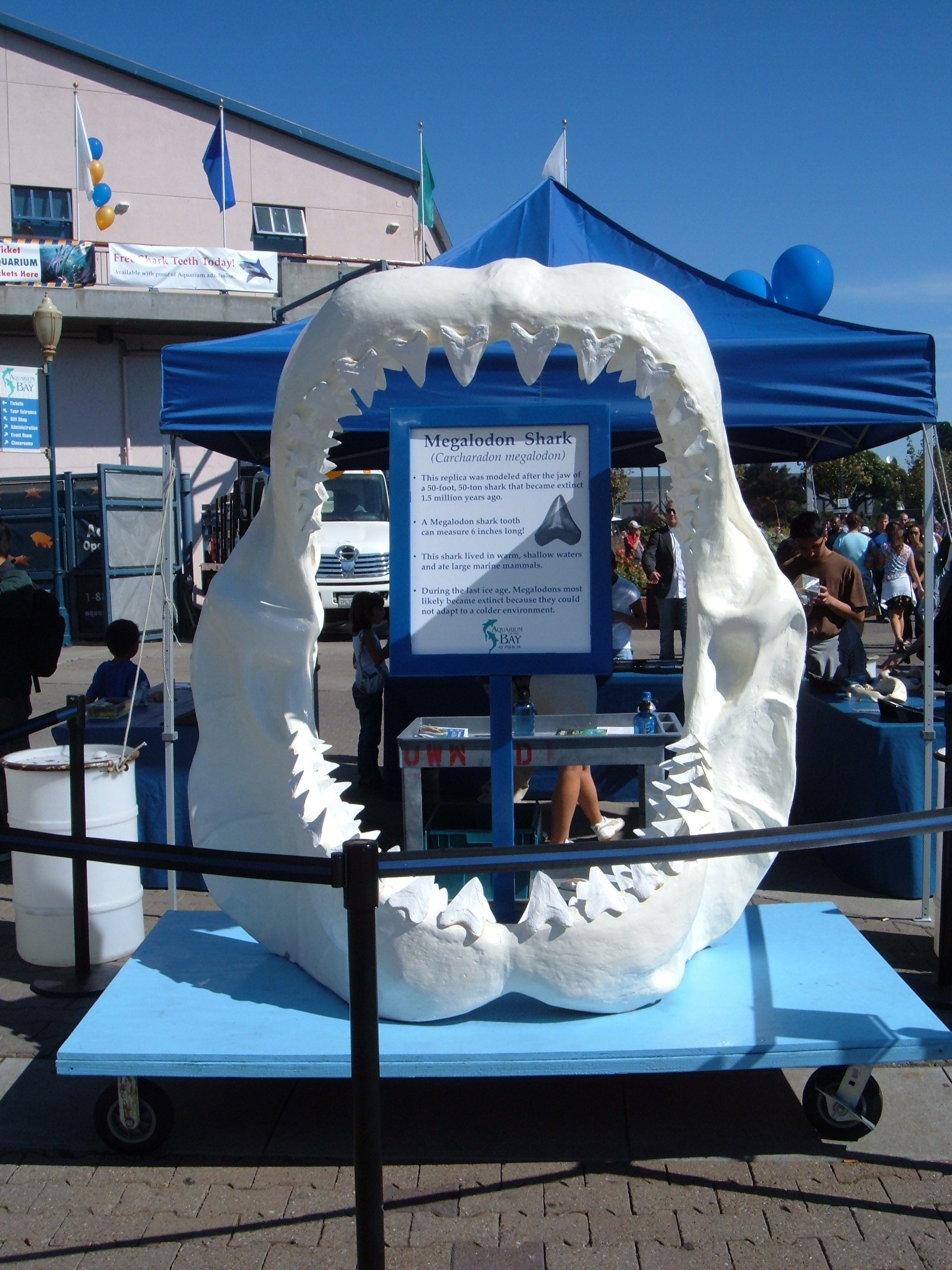 A replica Megalodon jaw from the Aquarium of the Bay on public display outside the aquarium during Fleet Week 2006 in San Francisco.